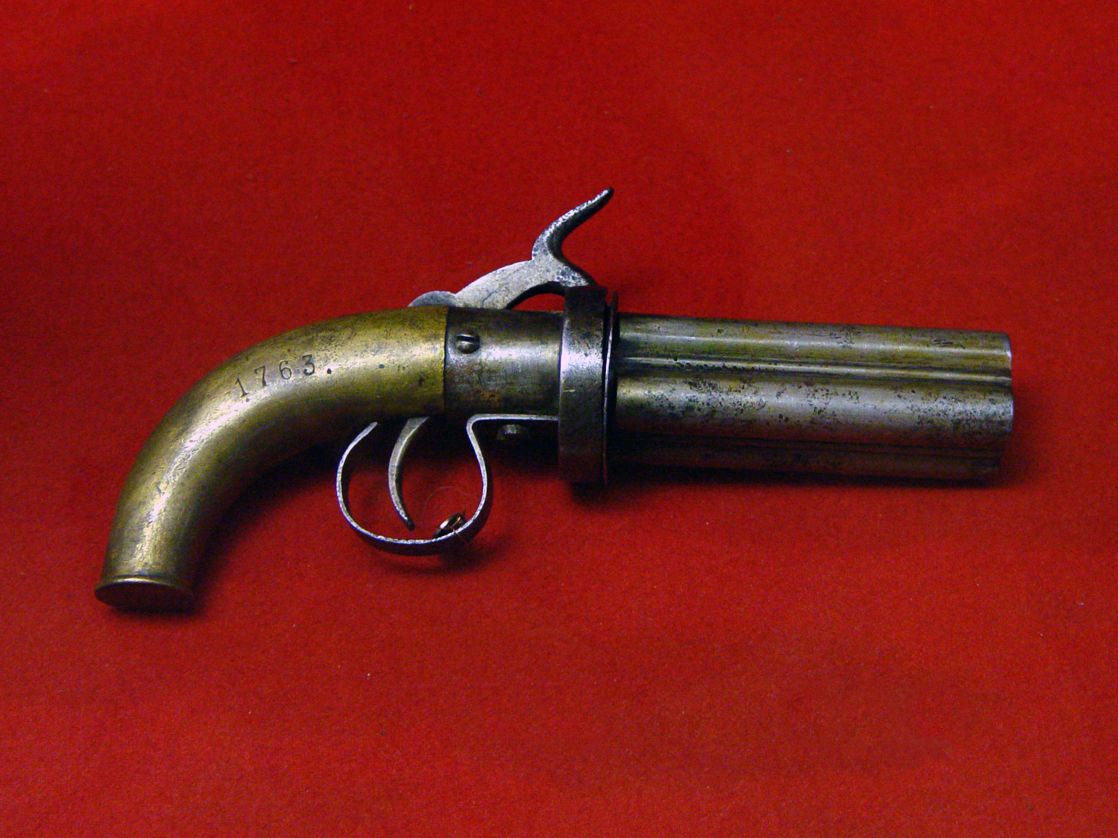 4-barrel pepperbox from Museum of Weapons in Tula, Russia